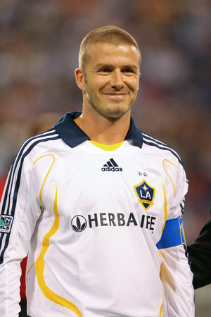 David Beckham before the first annual COPA Minnesota benefit game between the LA Galaxy and the Minnesota Thunder.